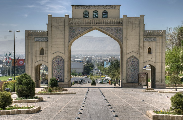 Quran Gate in Shiraz , Iran